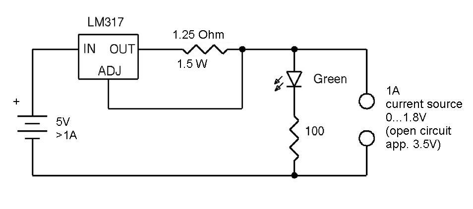 Schematic of a 1A Current Regulator